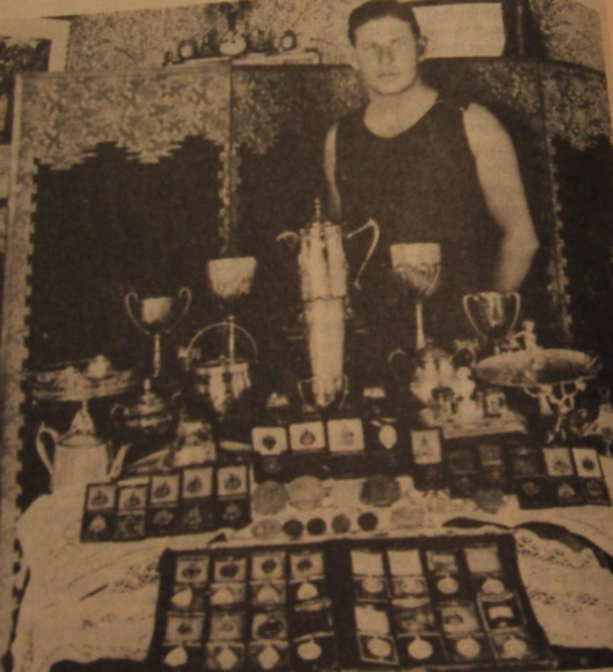 Harold Hardwick